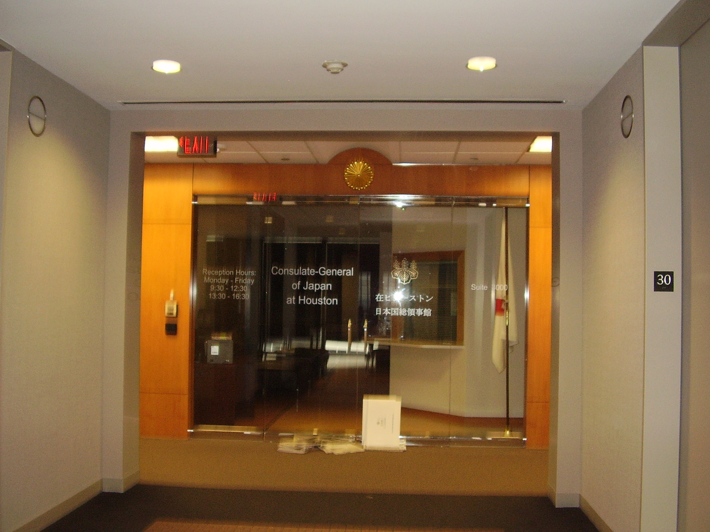 Consulate-General of Japan in Houston - Suite 3000, 2 Houston Center at 909 Fannin Street in Downtown Houston